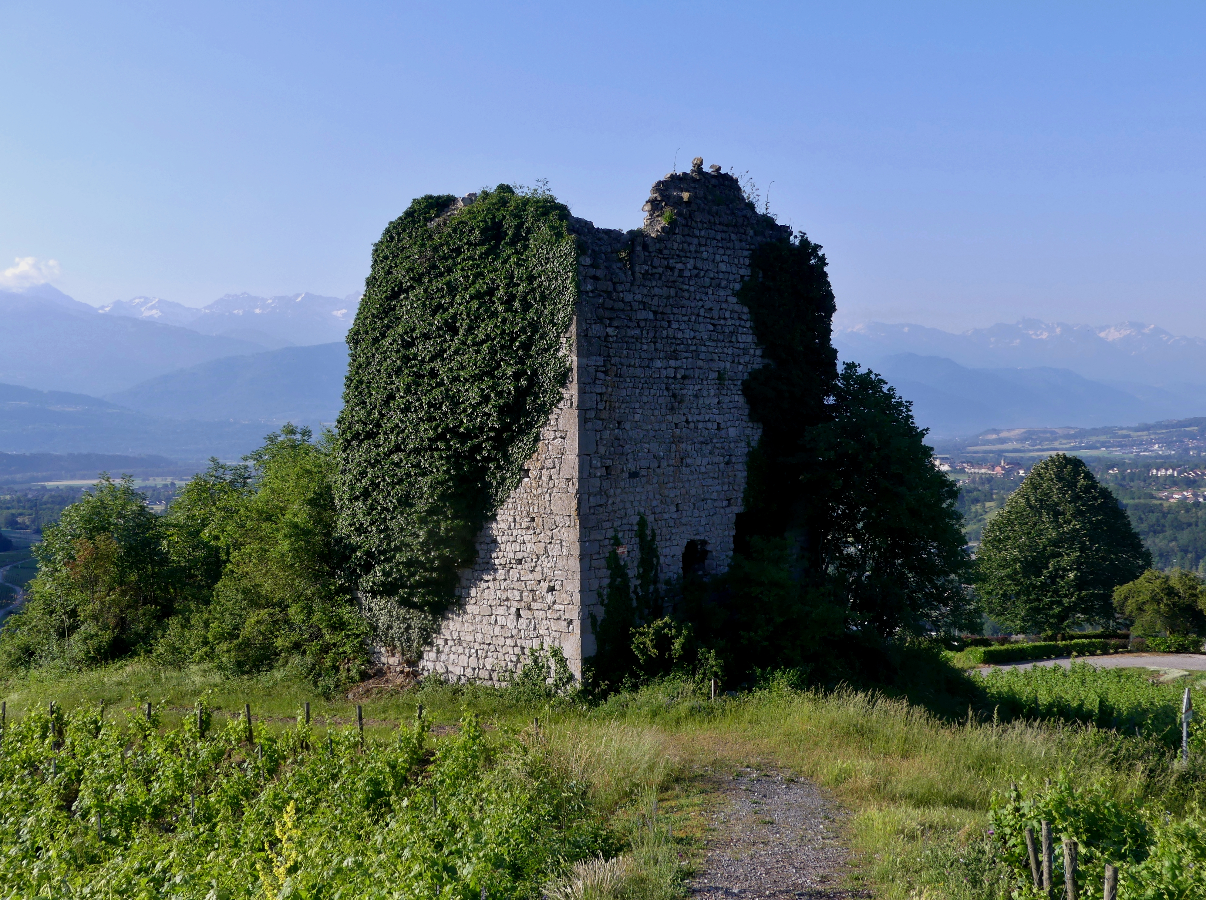 Sight of Verdun medieval tower of Chignin, in Savoie, France.